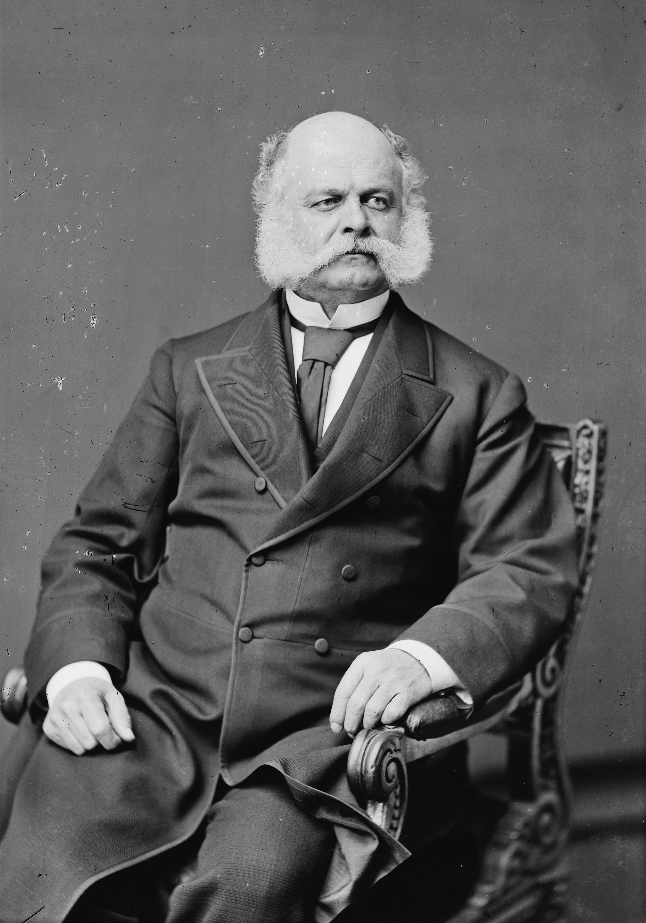 Ambrose Burnside. Library of Congress description: "Burnside, Hon. Ambrose of R.I."